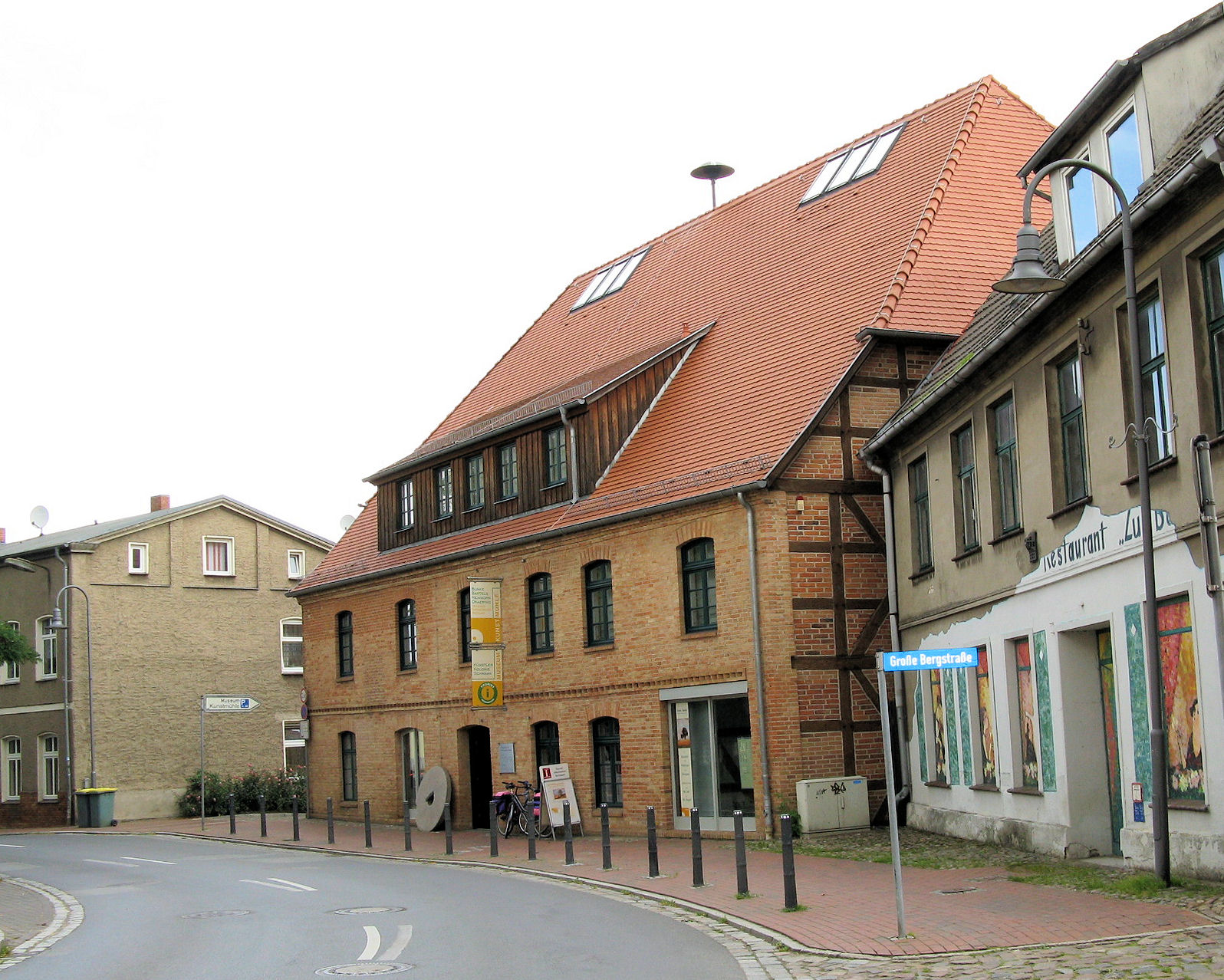 Old Watermill, today a Museum in Schwaan, disctrict Bad Doberan, Mecklenburg-Vorpommern, Germany